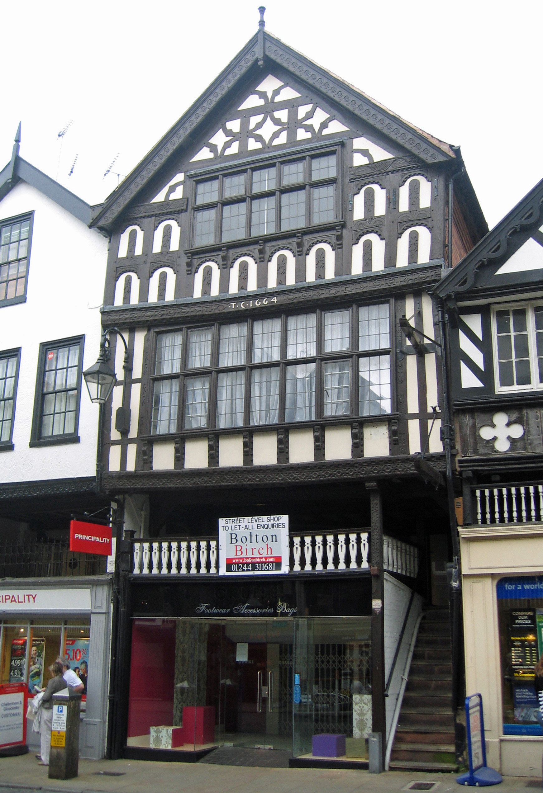 Photograph of Cowper House, 12 Bridge Street, Chester, Cheshire, England